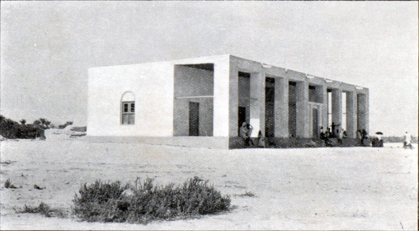 A school in an unnamed village in Bahrain, photo taken prior to 1937